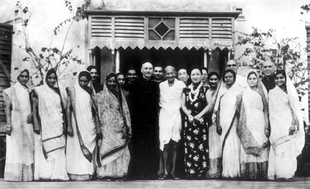 10 Feb 1942, Generalissimo Chiang Kai-Shek, Head of China, and First Lady Madame Chiang visited India. The couple were welcomed by the host Mahatma Gandhi at his home. The photo was taken by the Republic of China Government on 10 Feb 1942. The copyright has been expired after 50 years.